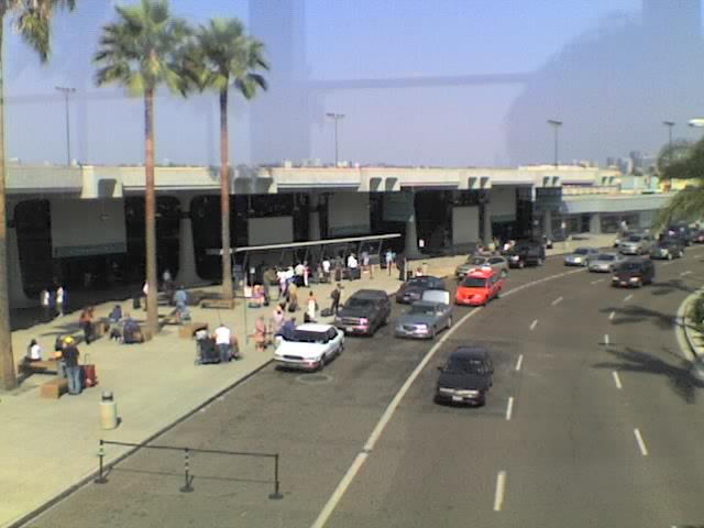 San Diego Intl. Airport Terminal 1.